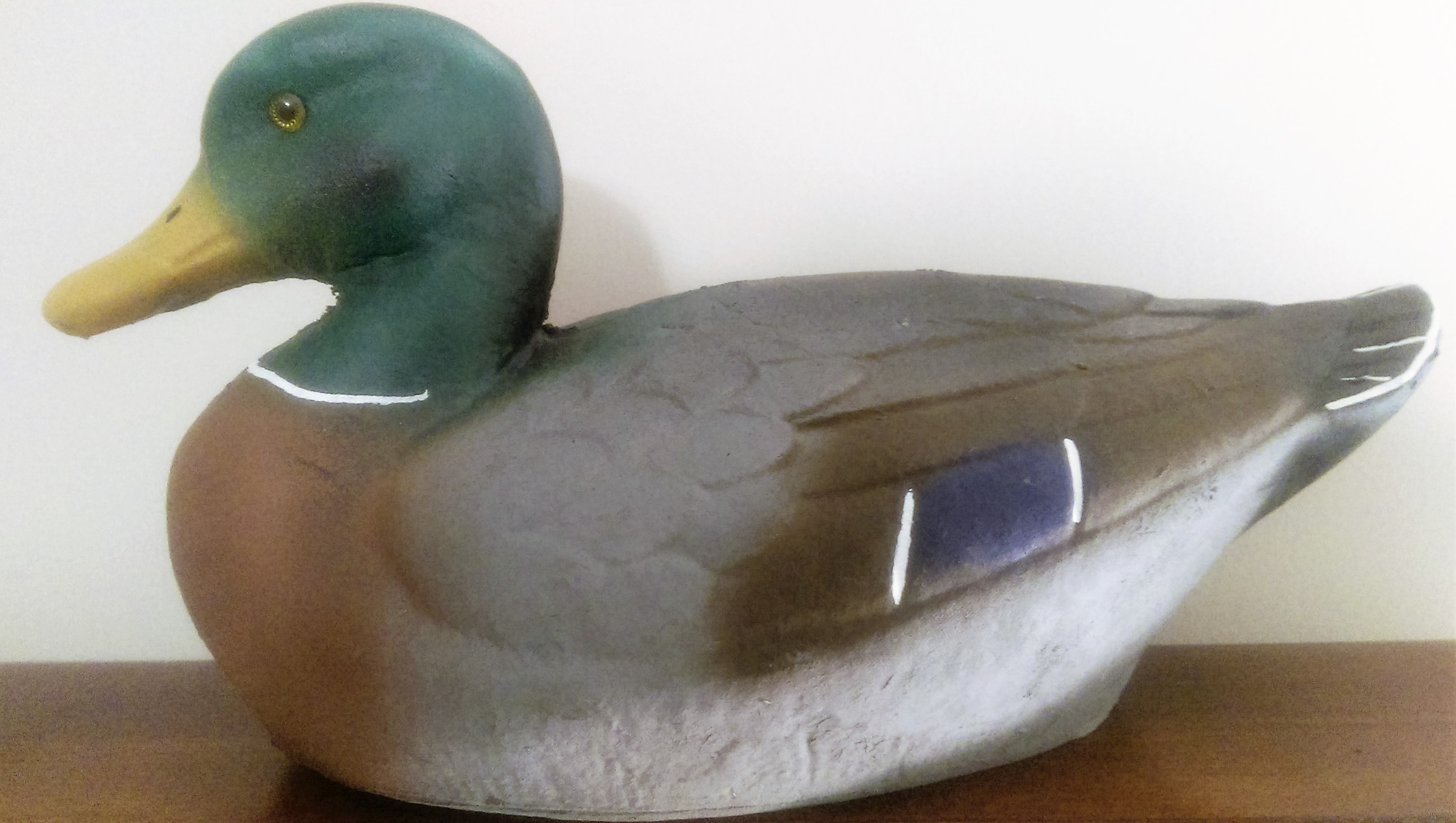 Mallard drake duck decoy constructed of pressed fiber materials. The duck is manufactured by the General Fibre Company as part of its line of Ariduk branded decoys.